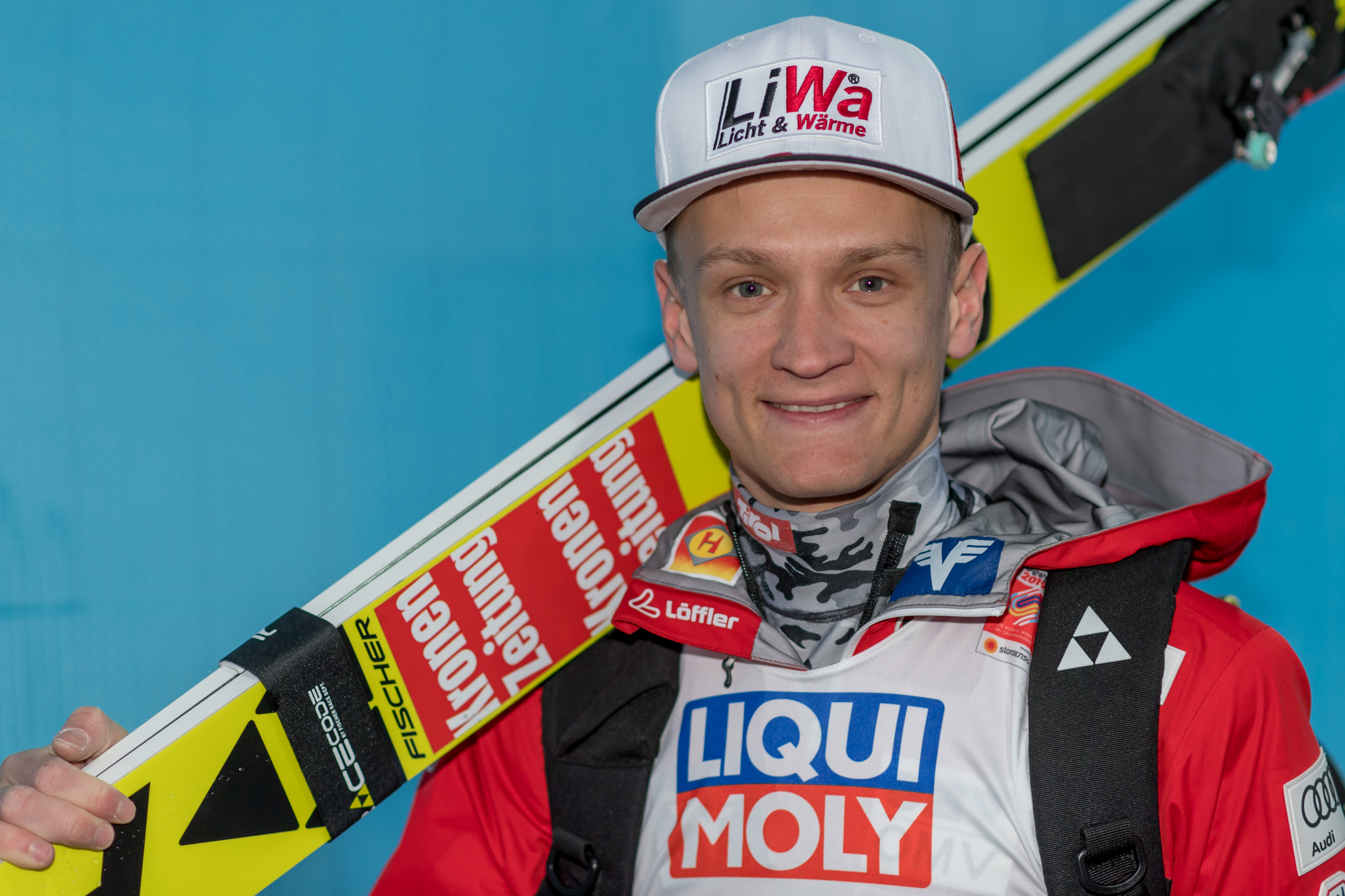 Seefeld, February 28, 2019: FIS Nordic World Ski Championships, Ski Jumping Qualification.